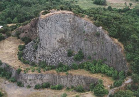 Hegyestű, Hungary, aerialphotography